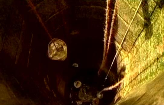 Inner view of the Octagonal Muthiri Kinaru in Swamithope. Source: I took this photo.